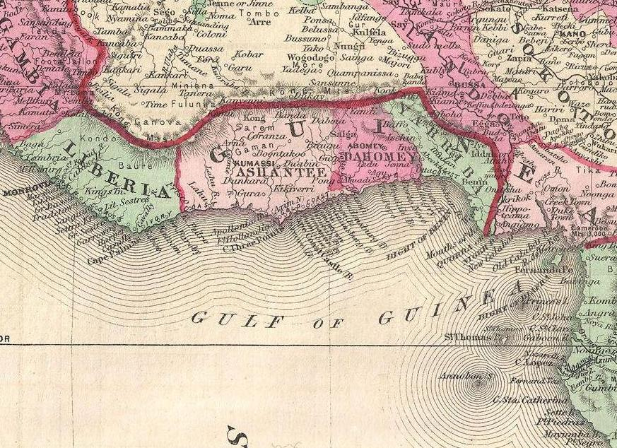 Excerpt of File:1864 Johnson Map of Africa - Geographicus - Africa-johnson-1864.jpg.